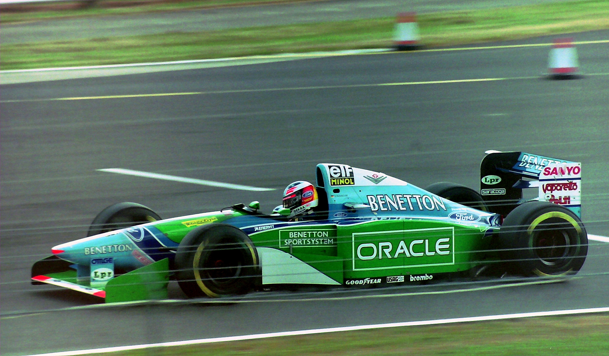 Michael Schumacher- Benetton 194 at Woodcote at the 1994 British Grand Prix